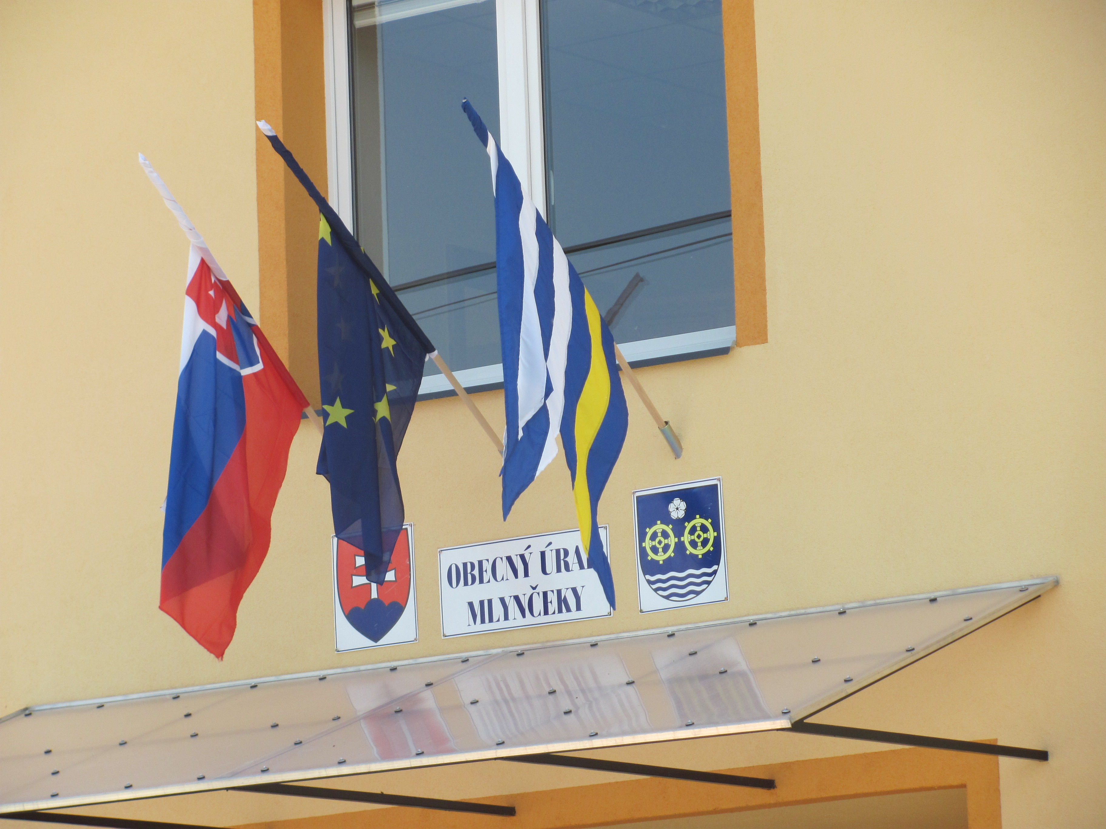 Flags on the front of the newly remodeled Mlynčeky municipal building in the middle of the town